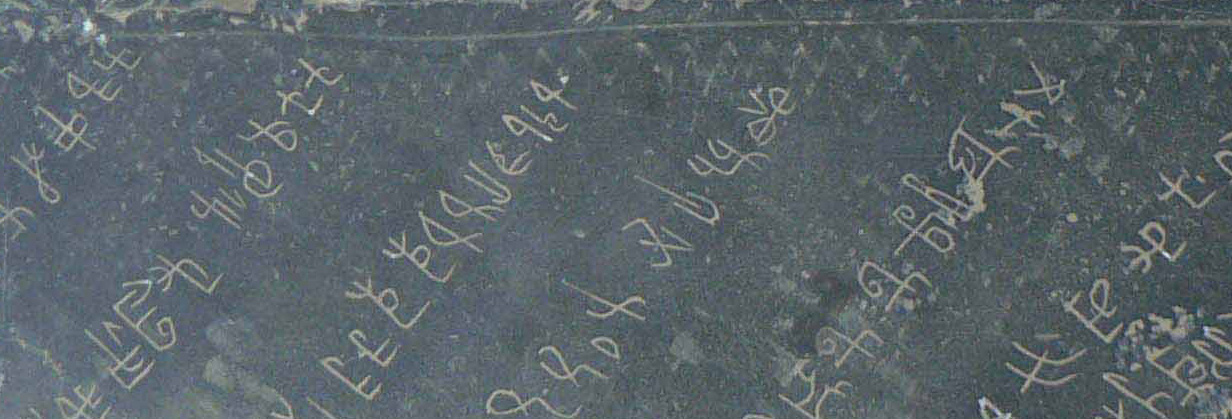 The slab bearing inscription written in Kohi script was found in Gandhara